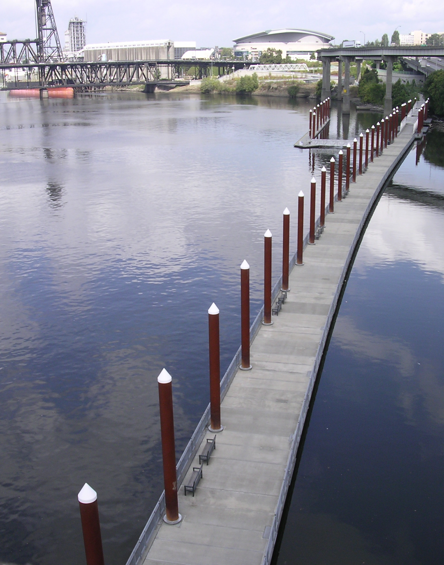 The floating walkway and public dock of the Eastbank Esplanade on the Willamette River in Portland, Oregon. The Rose Garden Arena is at the top and the Steel Bridge is to the left.